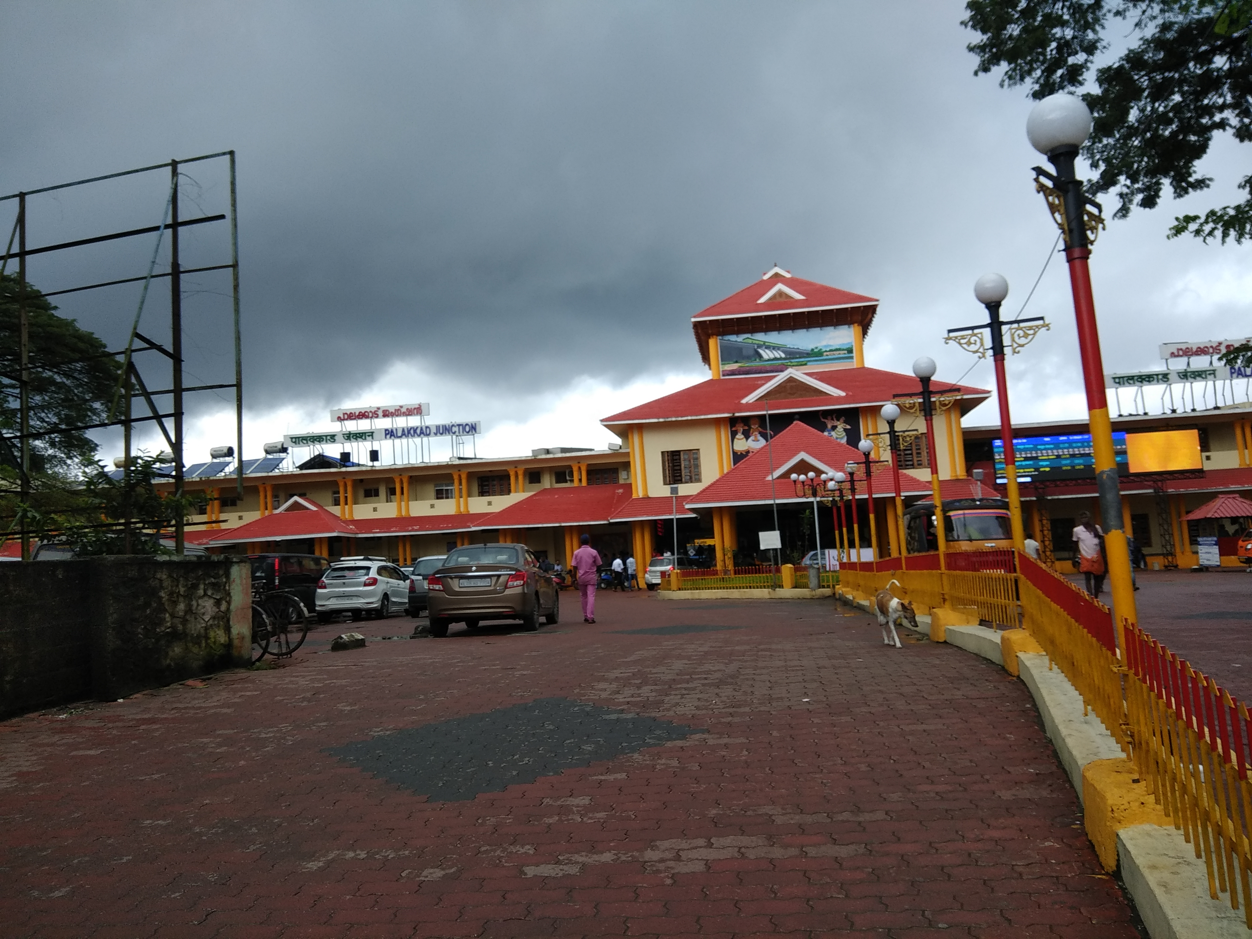 railway station entrance, Palakkad